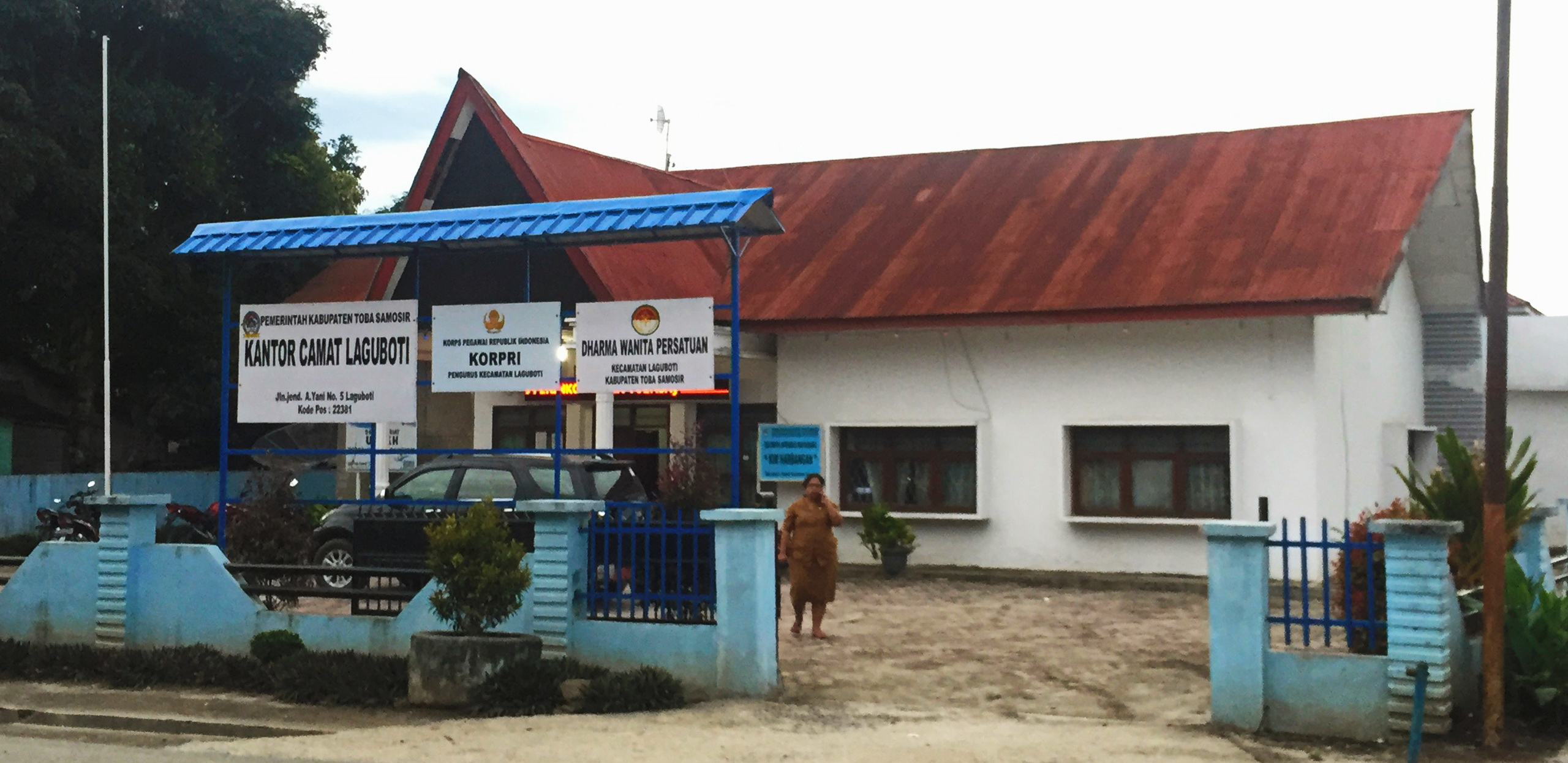 Office of Laguboti, Toba Samosir